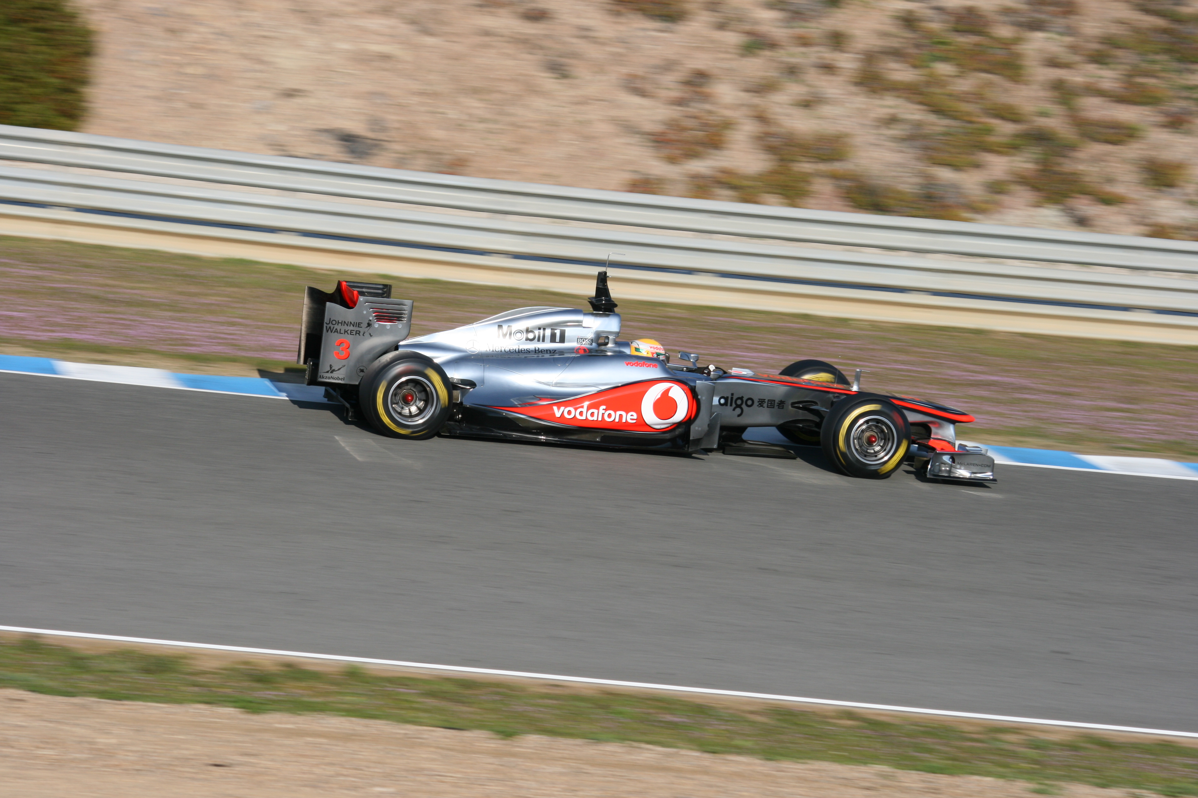 Lewis Hamilton testing for McLaren at Jerez.